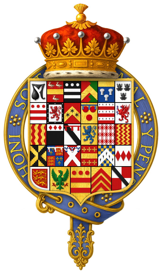 Quartered arms of Sir Henry Hastings, 3rd Earl of Huntingdon, KG Quartering based on those in Huntingdon's portrait in the National Portrait Gallery, London. Henry Hastings, 3rd Earl of Huntingdon